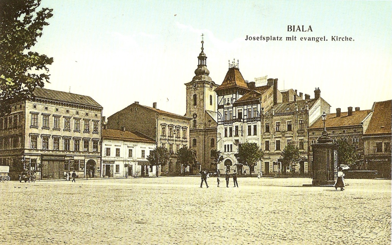 Bielsko-Biała, Poland. Wojska Polskiego Square in 1908 - northeast angle.